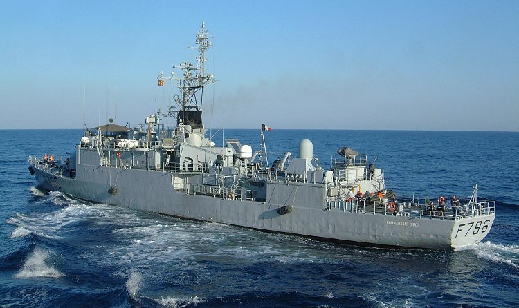 Aviso Commandant Birot off the coast of Toulon.